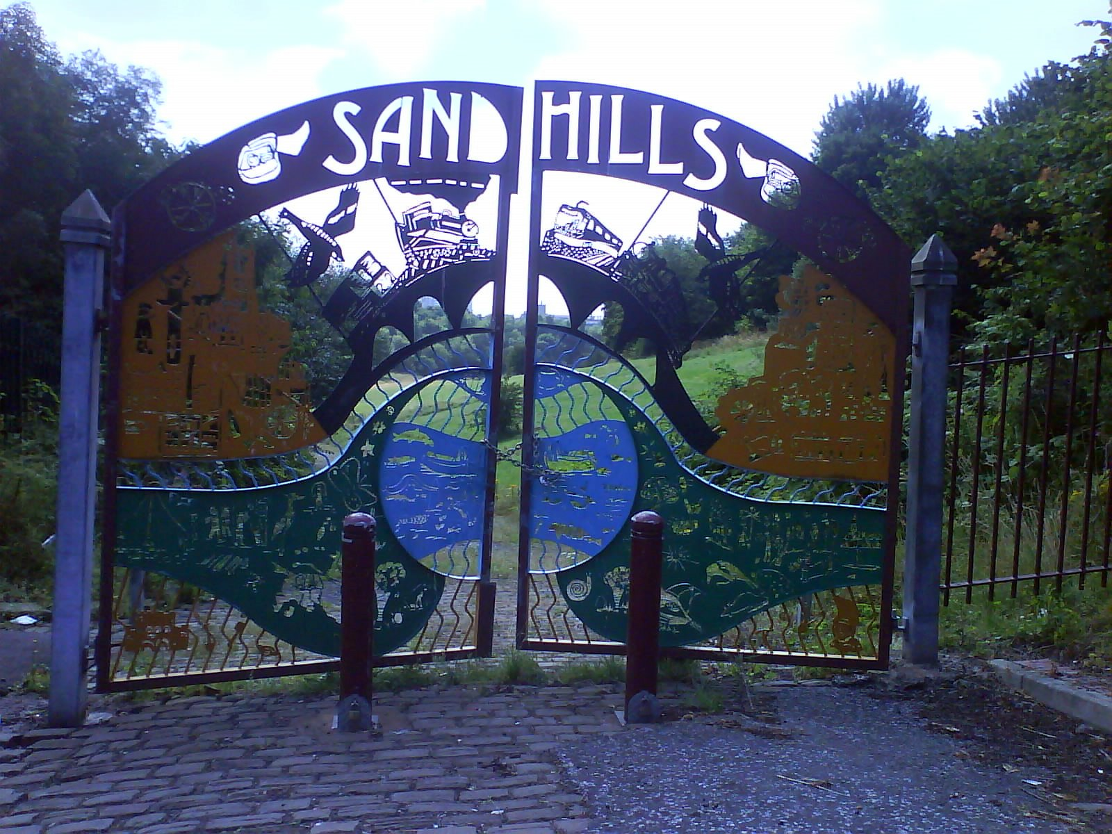 Entrance to Sandhills park, Collyhurst